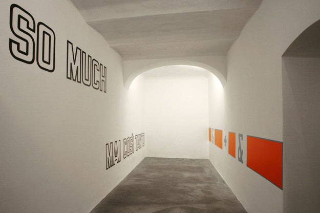 Lawrence Weiner Site Specific Installation for non profit artist run space Base / Progetti per l'arte / Firenze / Italy